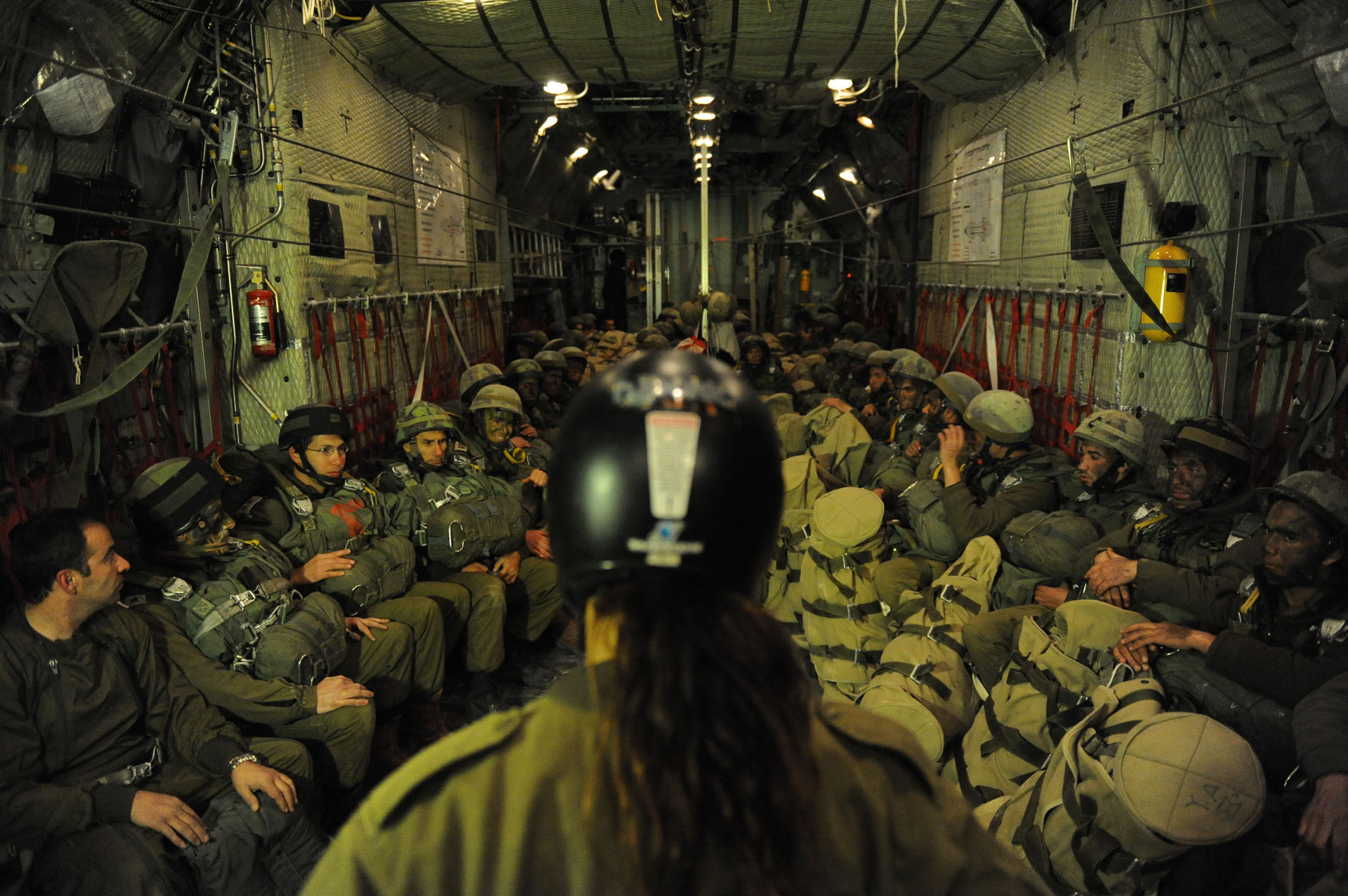 January 17, 2012 As part of their first operational parachuting drill in the last 15 years, the entire Paratroopers Brigade soared through the air. The drill was conducted under the supervision of the Brigade's commander, Col. Amir Bar'am, and in the presence of Maj. Gen. Gershon Hacohen. In the drill, thousands of the Brigade's soldiers have pushed their limits, examining their preparedness for whatever future operation that might arise, all in the effort to continue to assure Israel's security. The Israel Defense Forces Facebook The Israel Defense Forces blog Follow us on Twitter